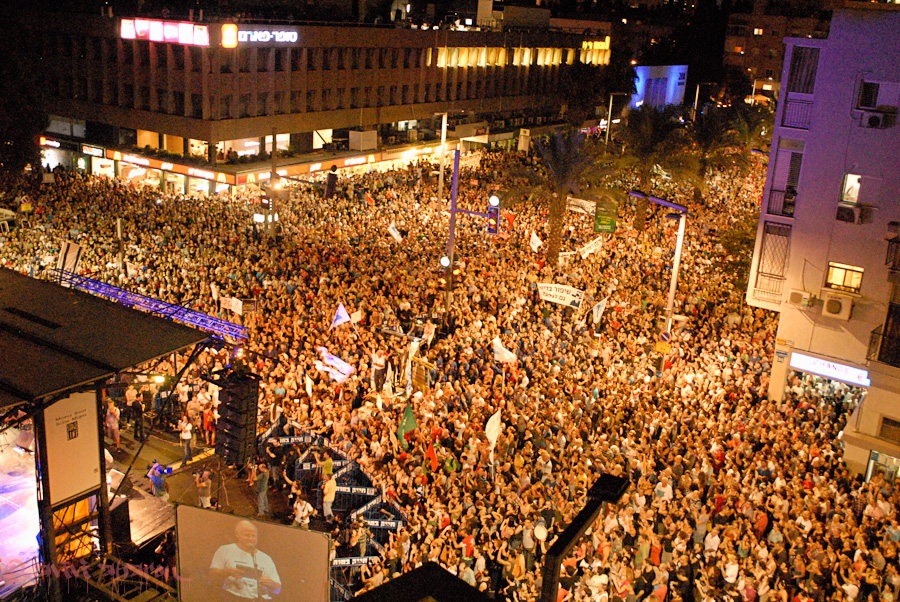 Israel Housing Protests Tel Aviv August 27 2011 Tens of thousands of Israelis took to the streets on Saturday night to participate in demonstrations protesting the high cost of living in Israel. In Tel Aviv, around 10,000 protesters marched from Habima Square to the intersection of Ibn Gvirol and Shaul Hamelech streets, where a rally was held. Noam Shalit (***seen in the screen at the picture), the father of captured IDF soldier Gilad Shalit, participated in the Tel Aviv rally. 'Social justice also means returning to the values upon which a generation of fighters were educated: Leave no soldier behind," Noam Shalit said. from